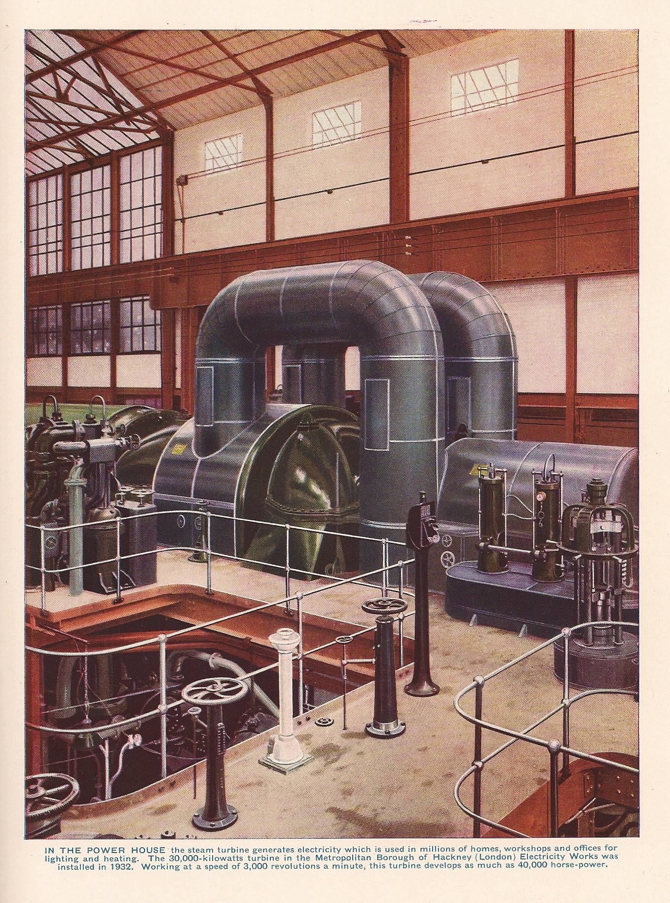 30 MW Parsons steam turbine in Hackney A power station, London, 1932.